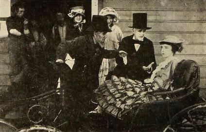 Still from the American film A Hoosier Romance (1918) with Thomas Jefferson, Frank Hayes, and Colleen Moore, on page 18 of the February 1919 Educational Film Magazine.